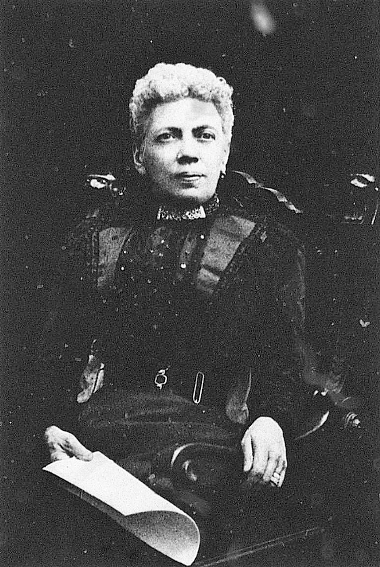 Portrait photograph of Emy Gordon (between 1902 and 1909)